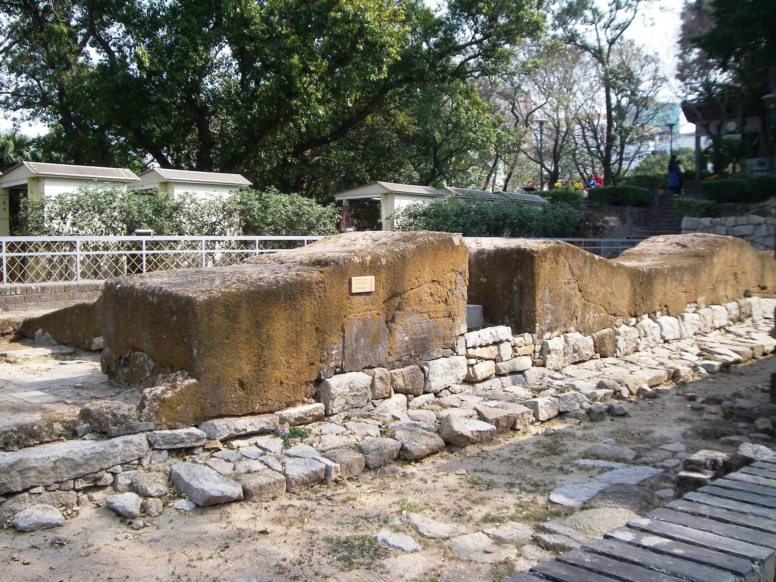 Remains of St Paul's College, Macau